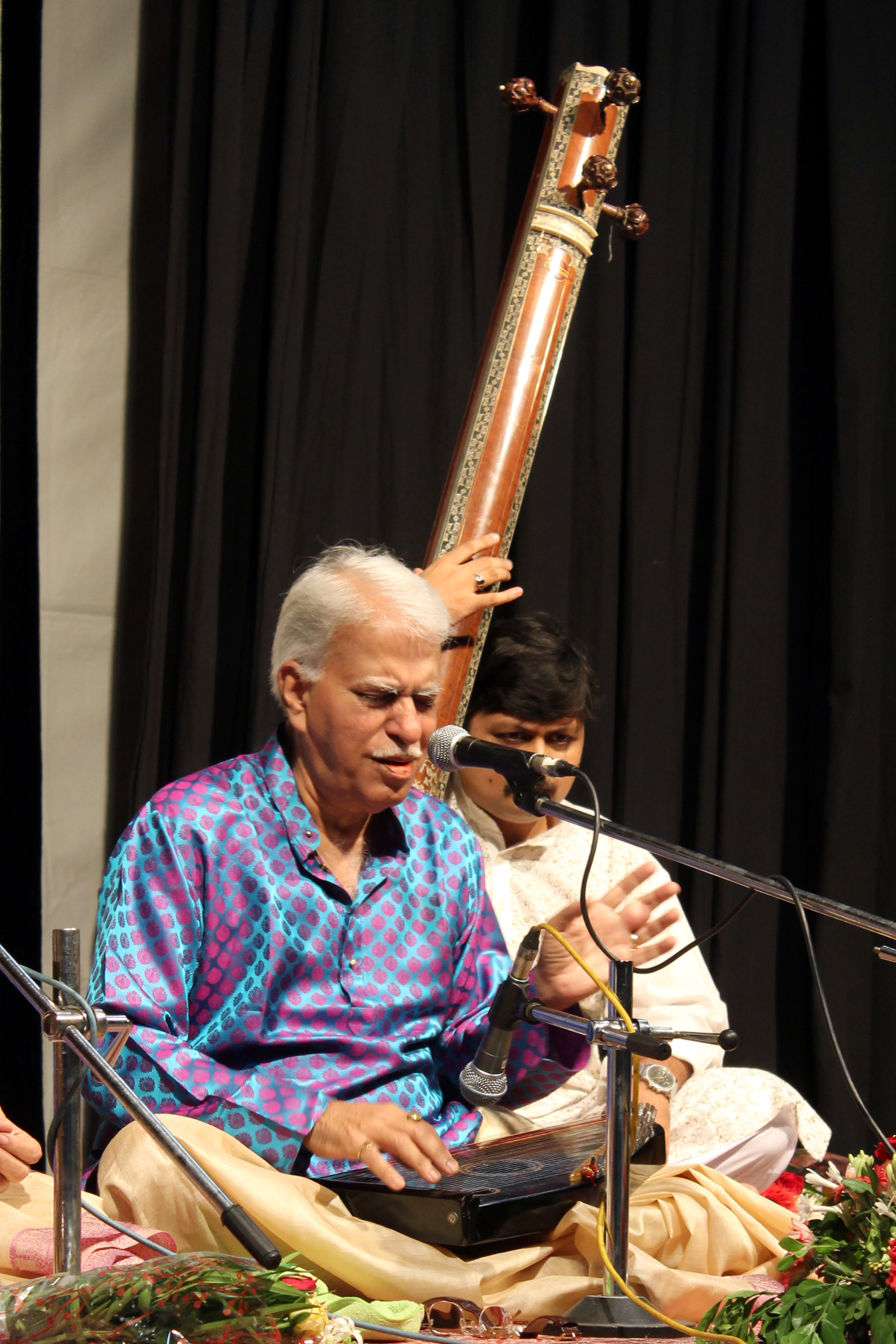 Rajan Mishra performing at Bharat_Bhavan Bhopal (July 2015)